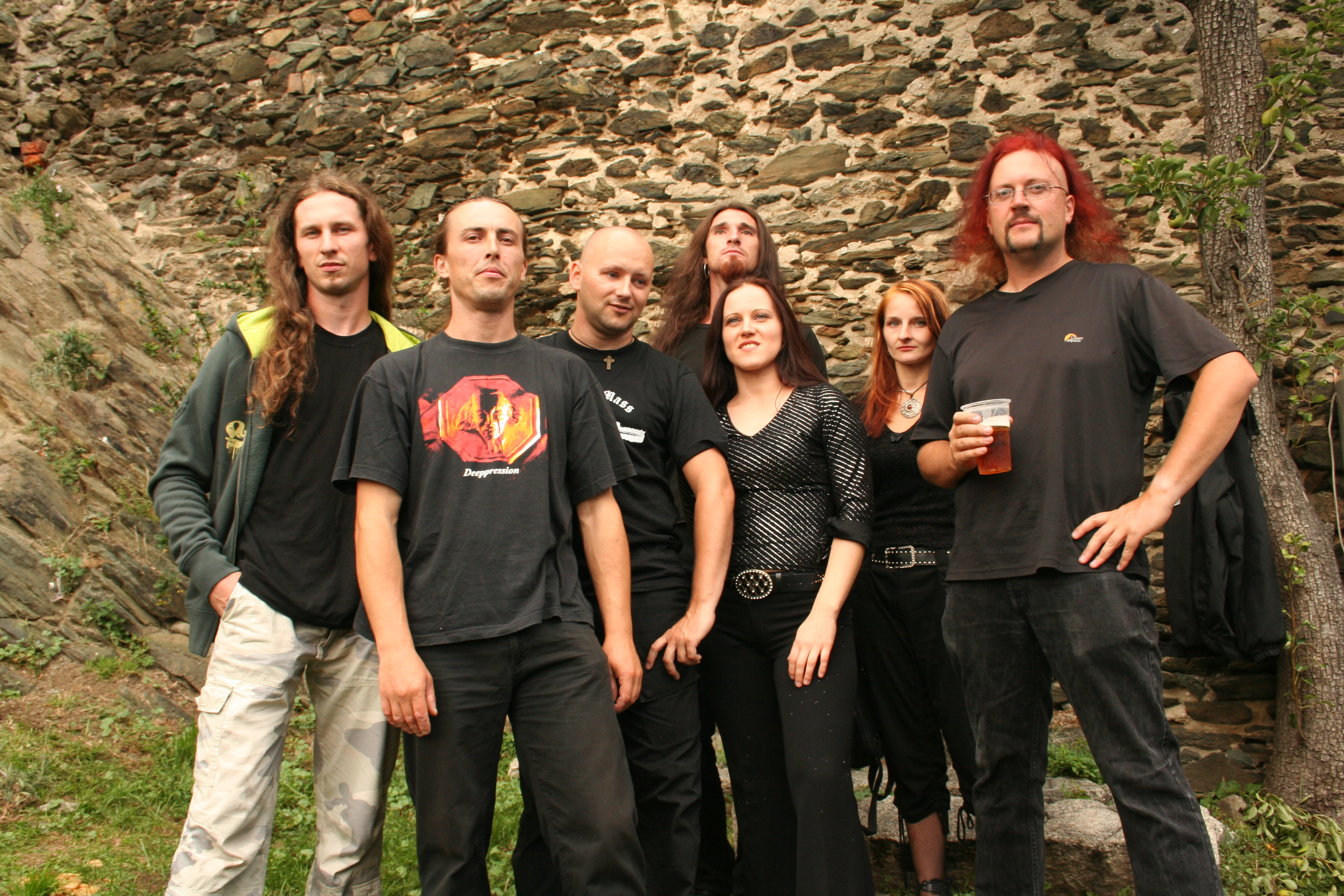 Castle Party 2007